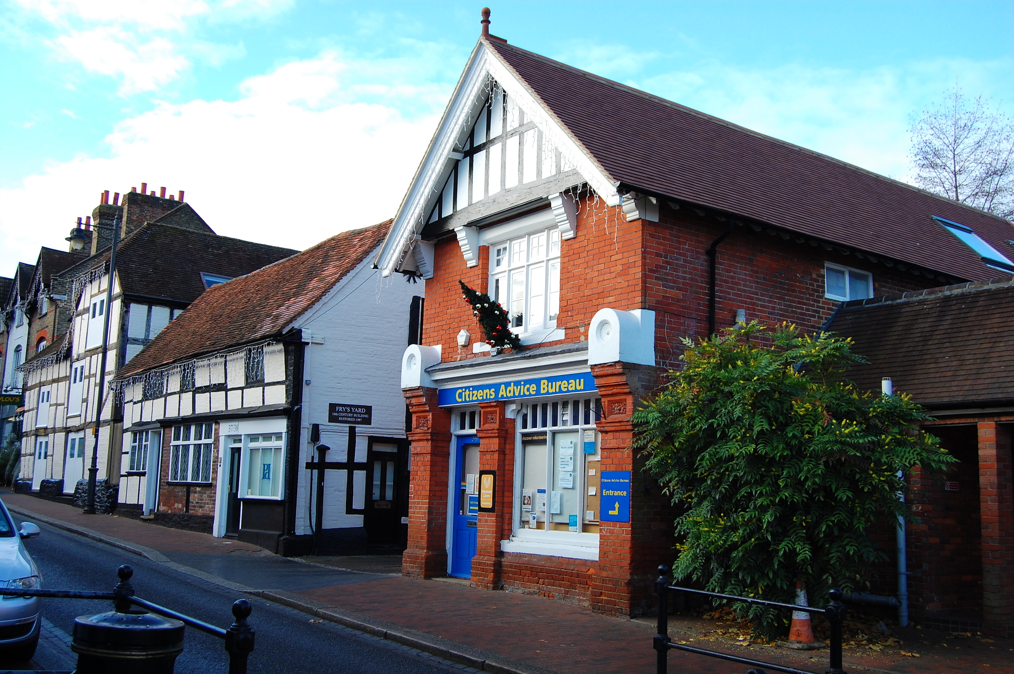 Godalming Citizens Adivce Bureau